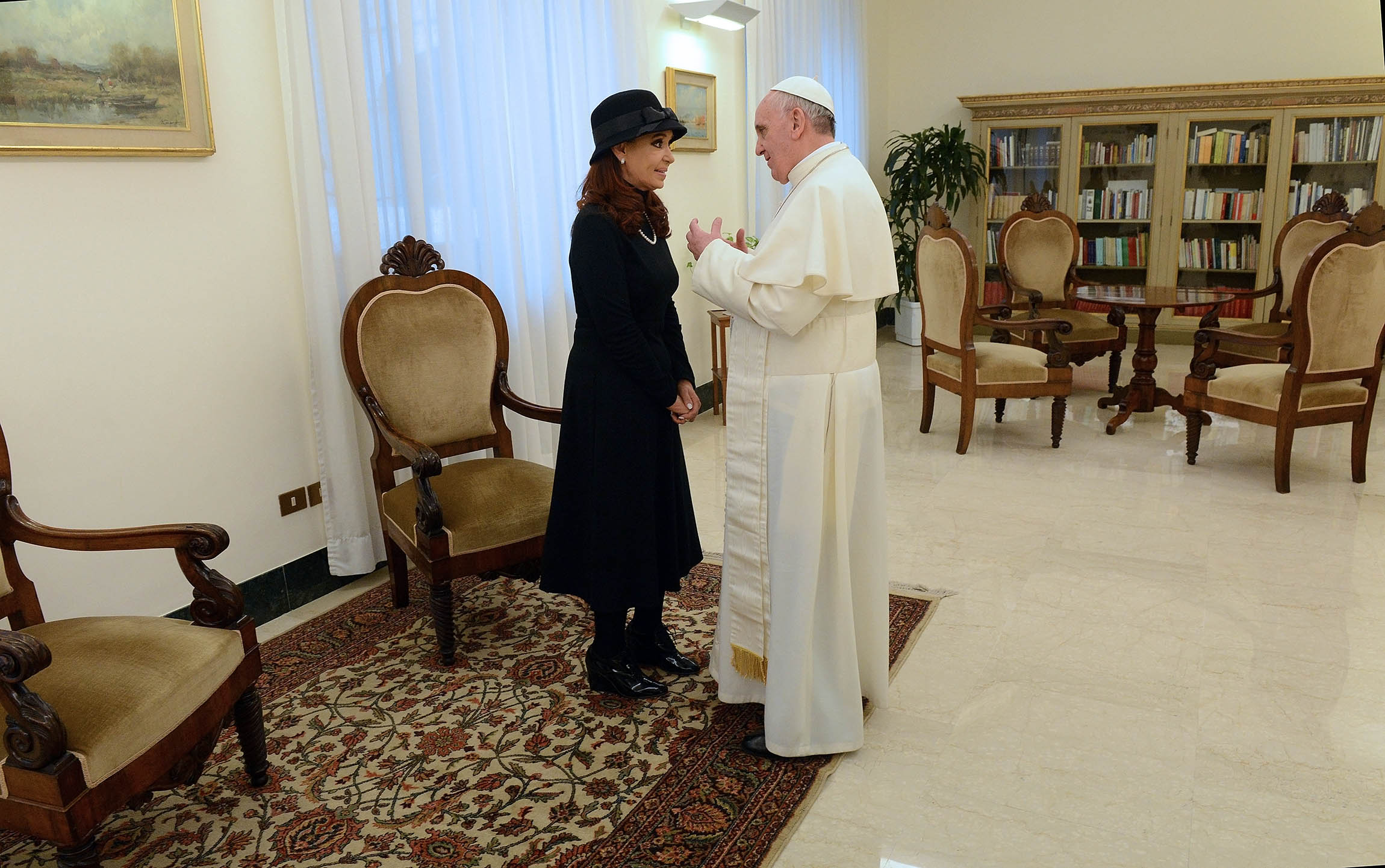 Cristina Fernández de Kirchner, president of Argentina, with Pope Francis